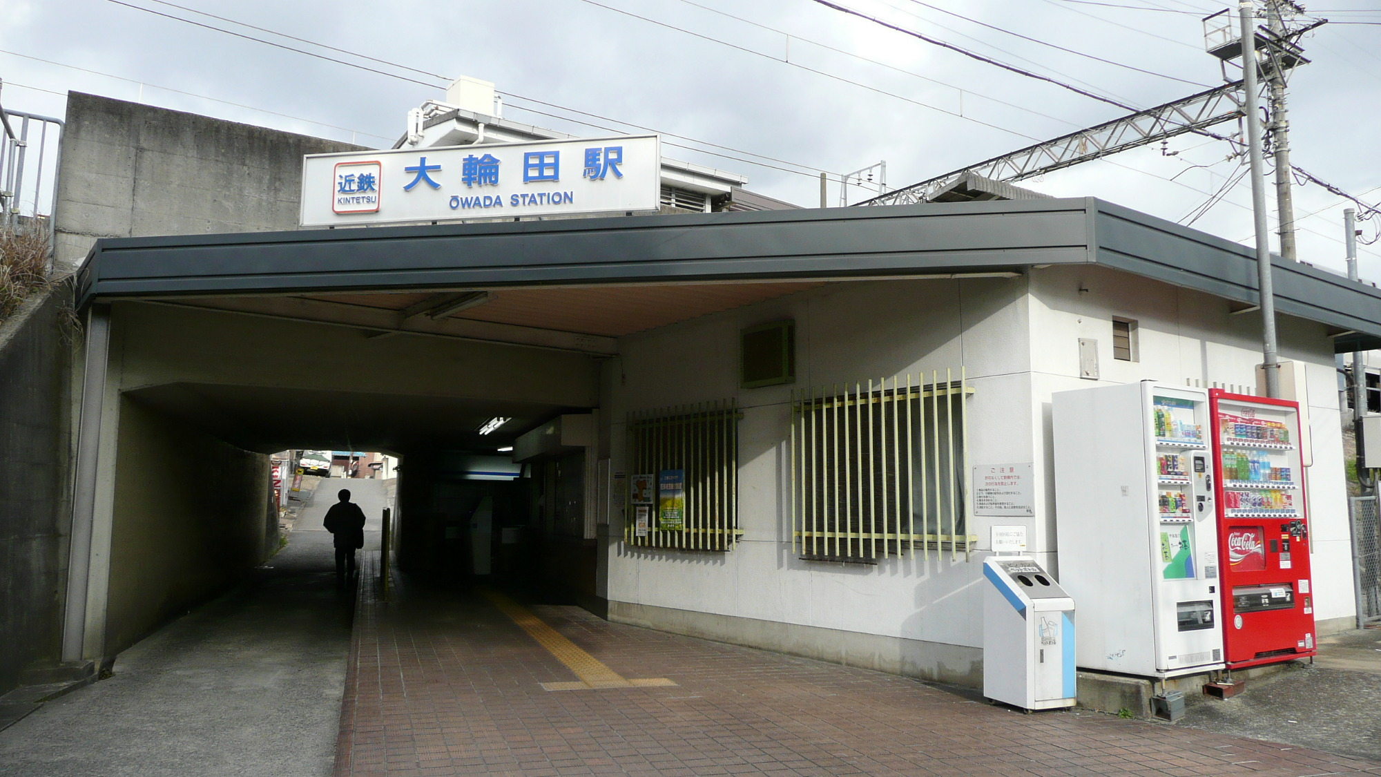 Kinki Nippon Railway,Tawaramoto Line,Owada Station. /近鉄田原本線（たわらもとせん）大輪田駅